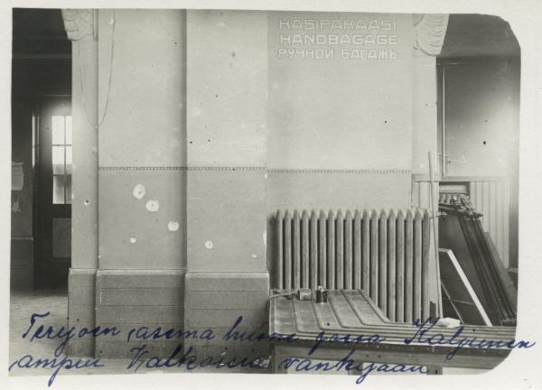 1918 Civil War of Finland. Bullet holes in the Terijoki Railway Station where the Red commander Heikki Kaljunen allegedly shot his prisoners.